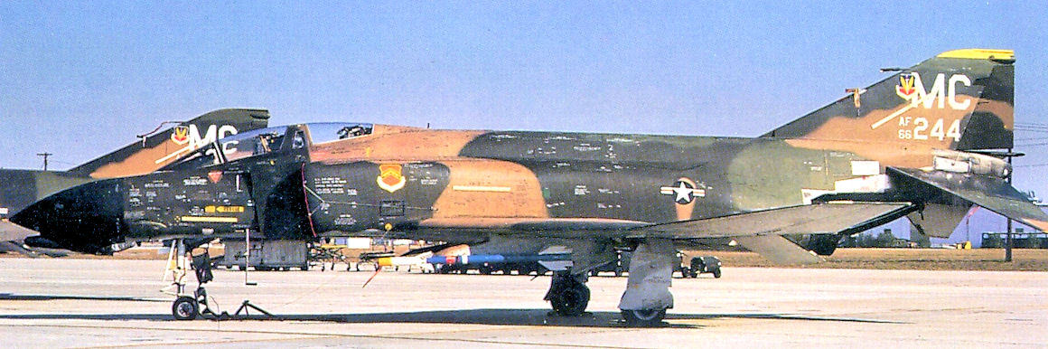 F-4D of the 61st Tactical Fighter Squadron, MacDill AFB Florida (rescanned 05/2011) Source: Tail Code: The Complete History of USAF Tail Code Markings. Patrick Martin, 1994 - Source Given as official United States Air Force Photo